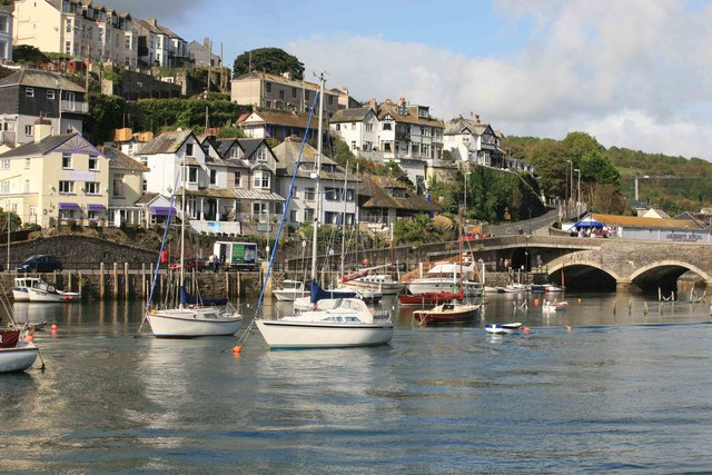 Looe Harbour Taken from the fish quay looking towards the West Looe side of the bridge